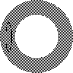 Annulus.circle.nulhomotopic